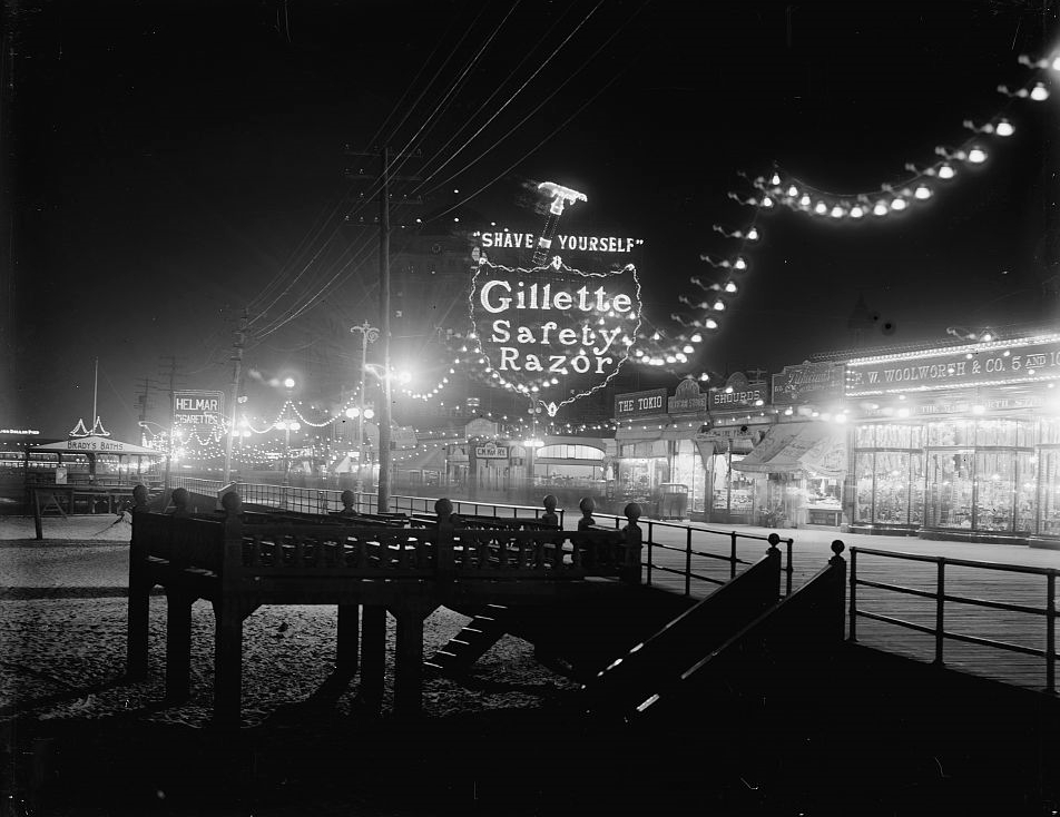 Boardwalk at night, Atlantic City, N.J. "Shave yourself, Gillette safety razor" on sign.